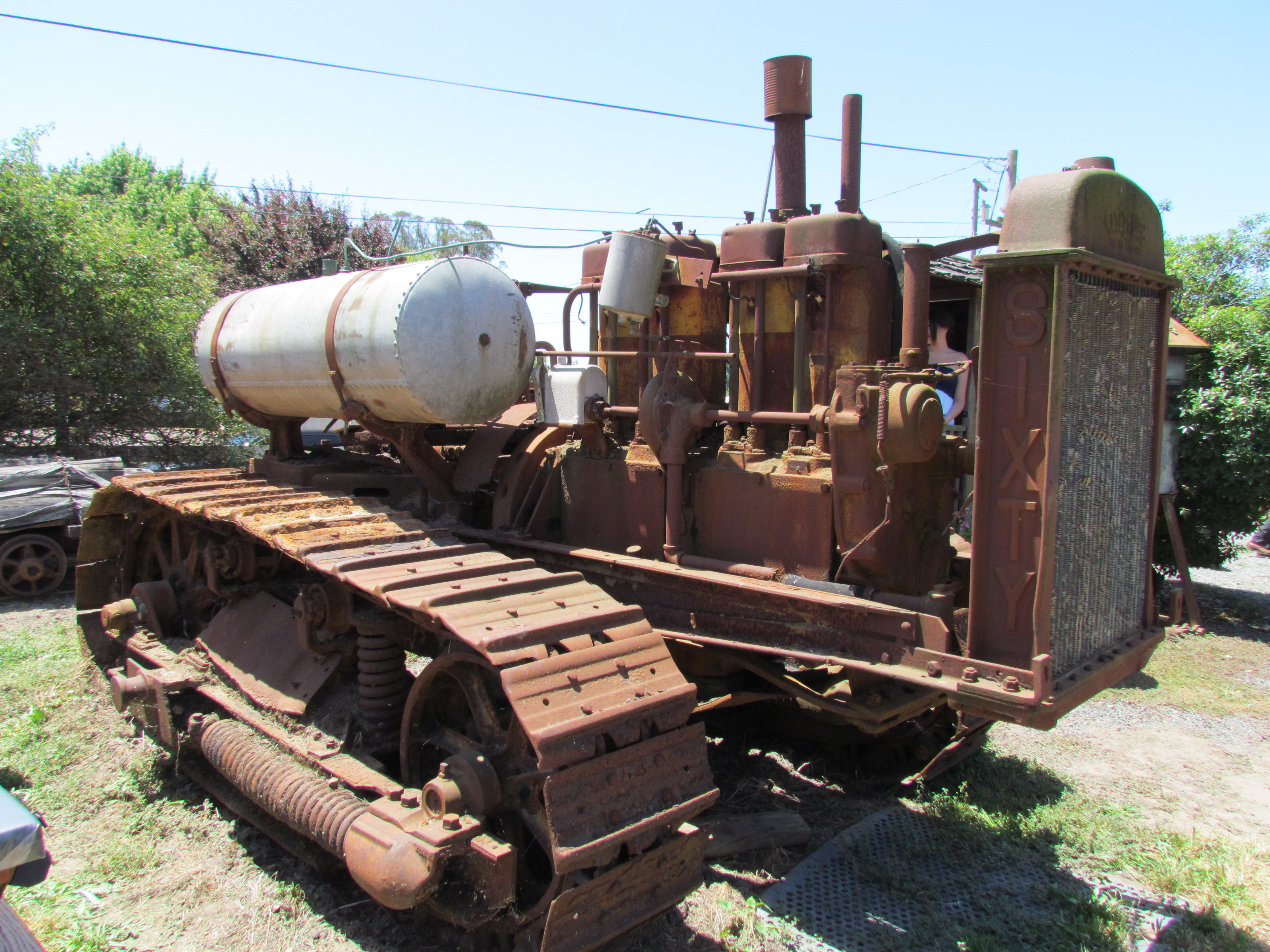 Caterpillar 60, Penngrove Power & Implement Museum Pengrove Power and Implement Museum, Penngrove, CA, July 9, 2011